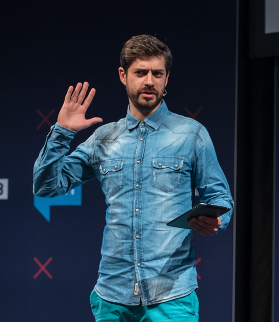 Daniel Bröckerhoff and Monique van Dusseldorp 25 September 2015, Hamburg, Germany. Image ©Dan Taylor/Heisenberg Media. For bookings contact - or +447821755904